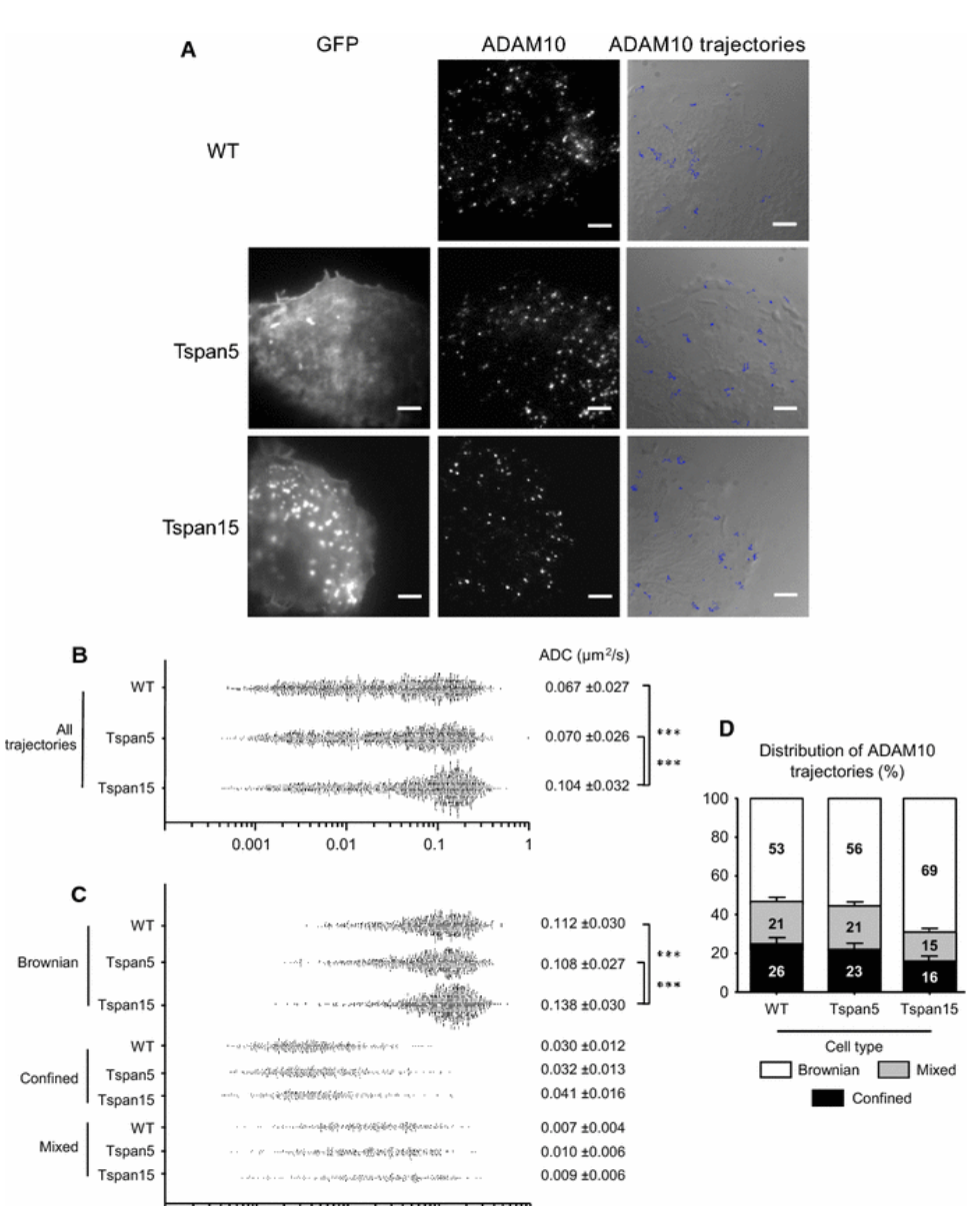 Tspan5 i Tspan15 regulen la compartimentació de membrana d'ADAM 10